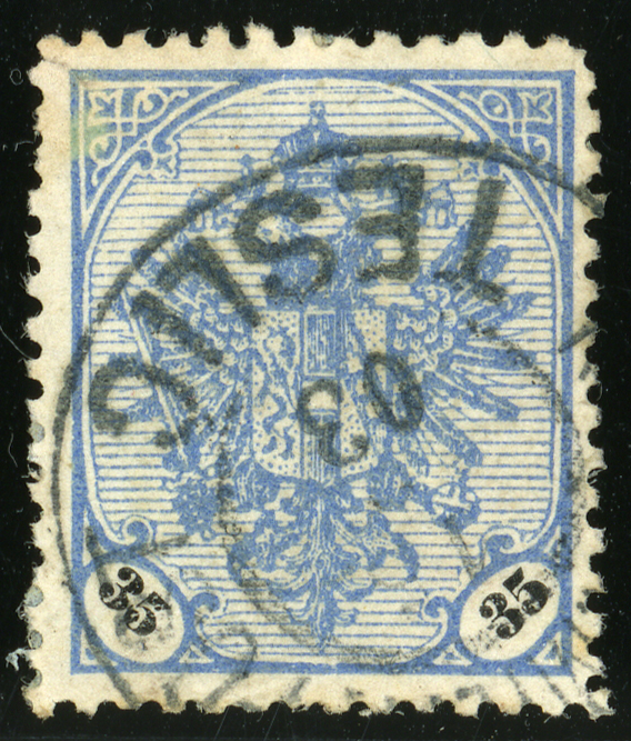 Bosnia-Herzegovina stamp, 35 heller issue 1901, cancelled at Teslić in 1903 (Austria-Hungary administration).